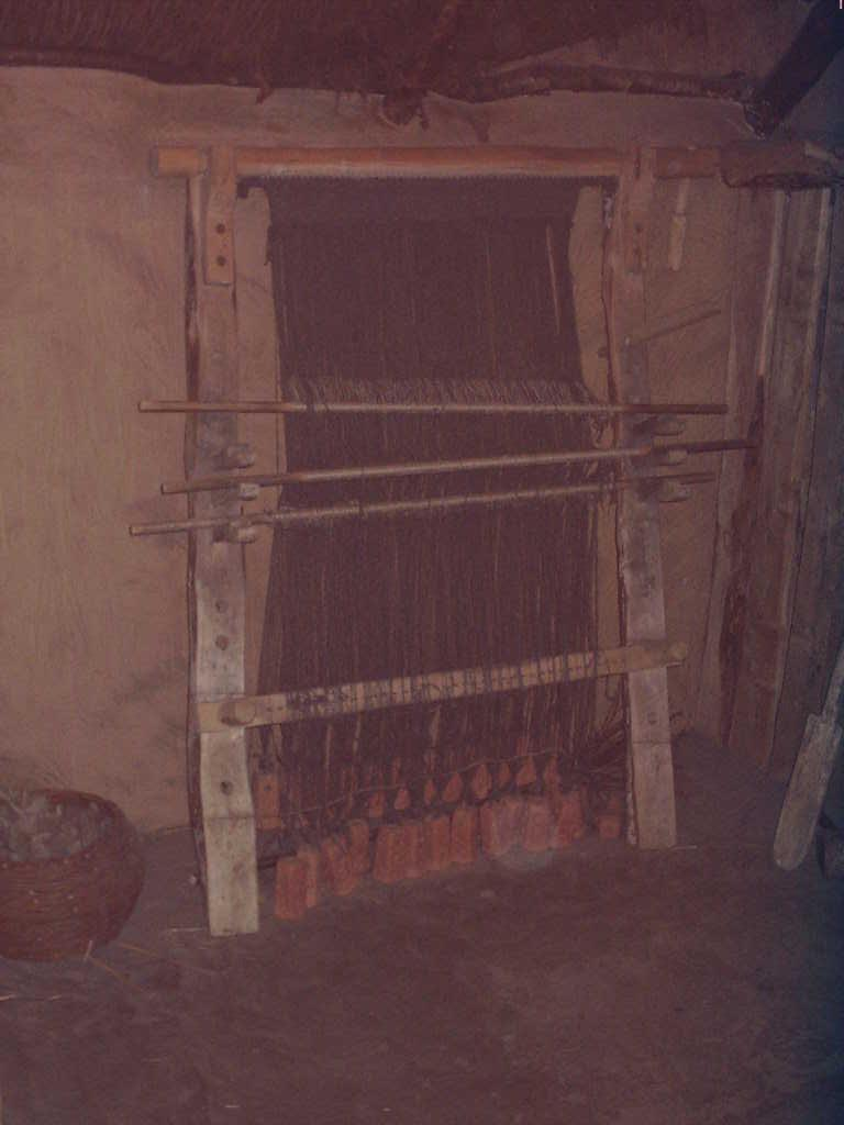 Rekonstruction of a warp weighted loom